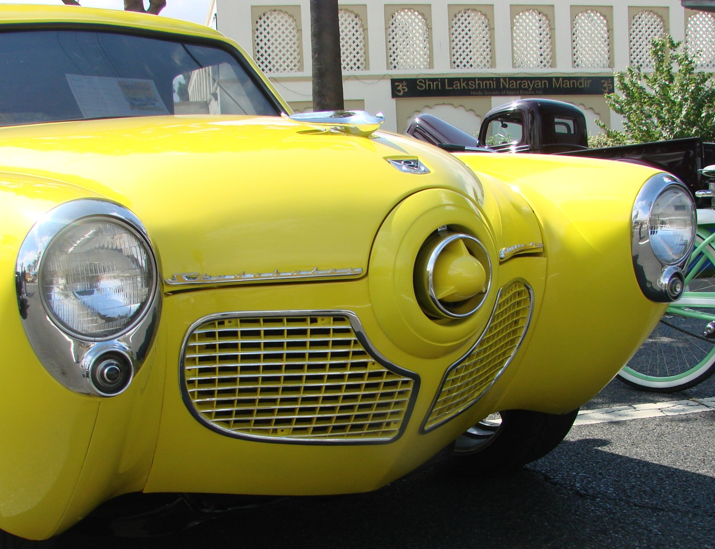 (1 in a multiple picture set) THAT was radical back in the day.